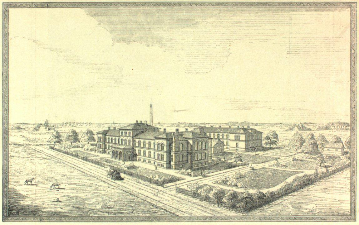 Copenhagen County Hospital at Fasanvej in Frederiksbertg, Copenhagen, Denmark